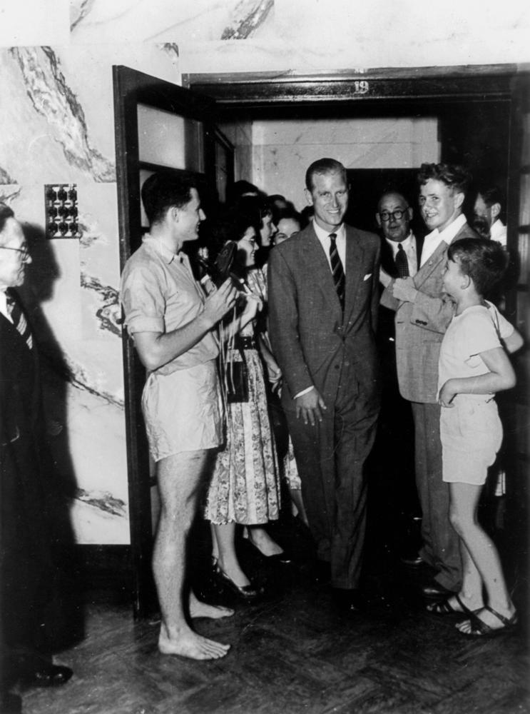 Greeting Prince Philip, Duke of Edinburgh, in Brisbane, Australia, during the royal visit in 1954